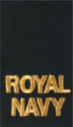 Shoulder rate badge worn by Royal Navy ratings holding the rank of Able Rating.